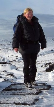 Lynette walking in the snow on Kinder Scout.